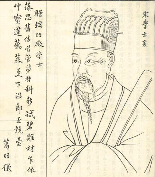 Cai Xiang (1012-1067)